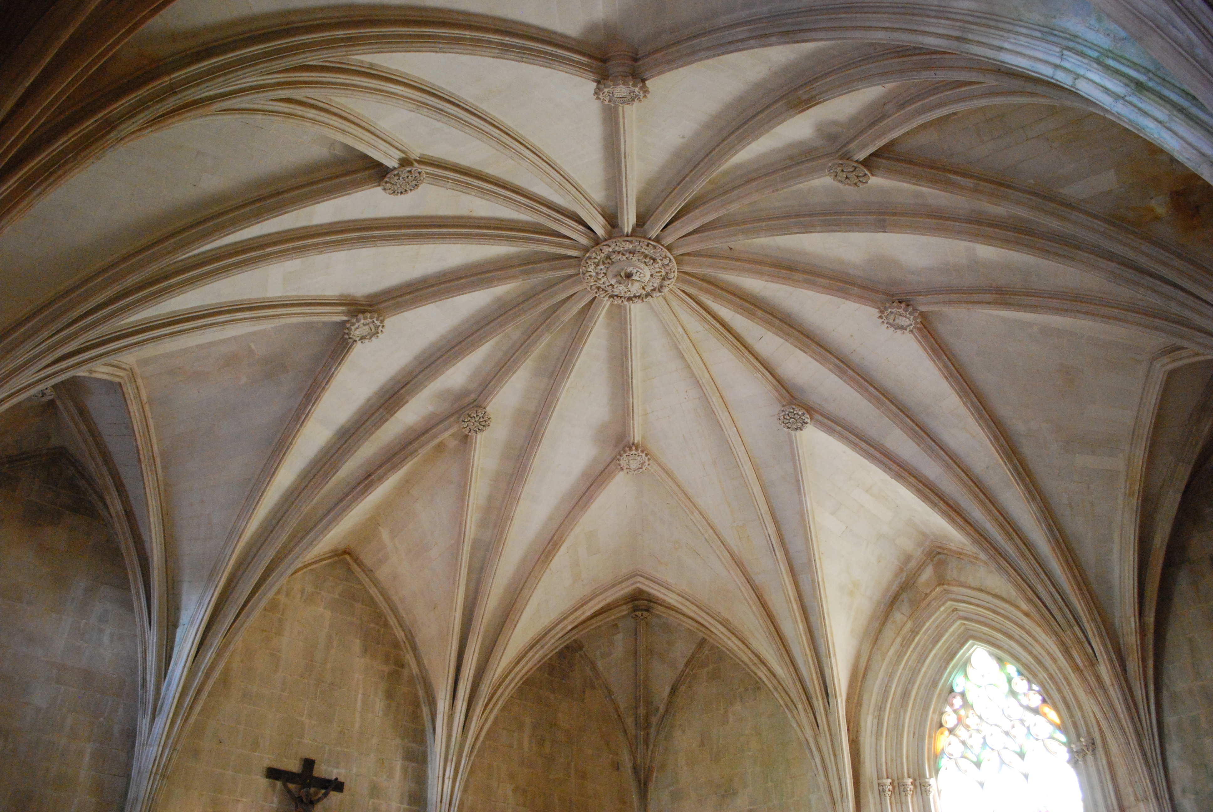 This file was uploaded for Wiki Loves Monuments in Portugal with the unique identifier 70099.